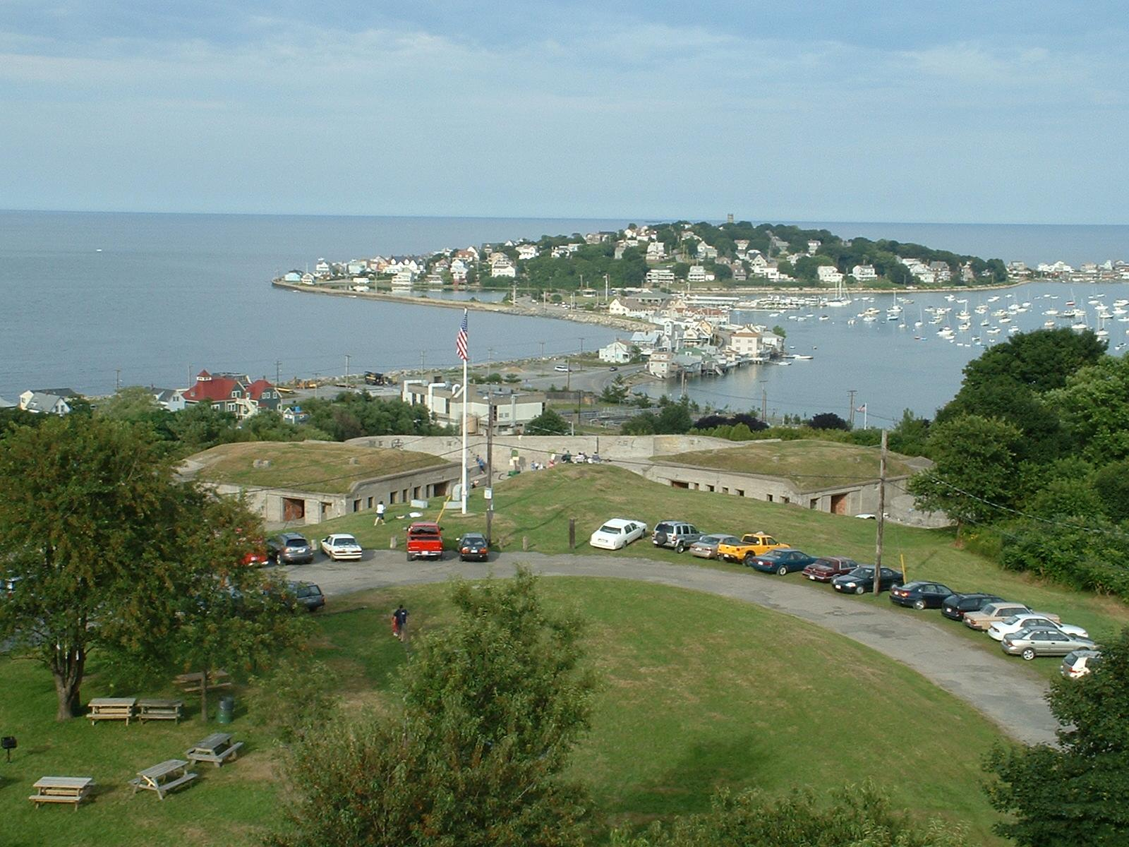 View from the water tower at Fort Revere, Hull, Massachusetts, showing the fort in the foreground and the Allerton neighborhood and Massachusetts Bay in the background.